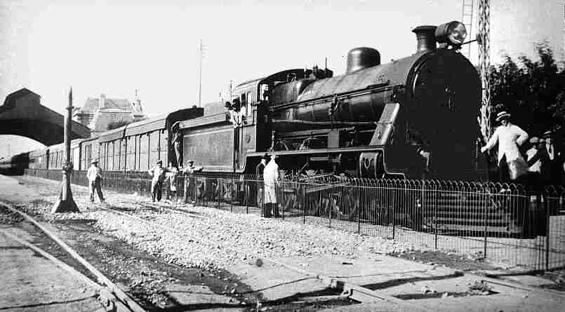 Vulcan Foundry locomotive "12E" model, used in BA Great Southern Railway for long-distance passenger services. 12E served to Mar del Plata, Tandil, Bahia Blanca and other cities of Buenos Aires Province.